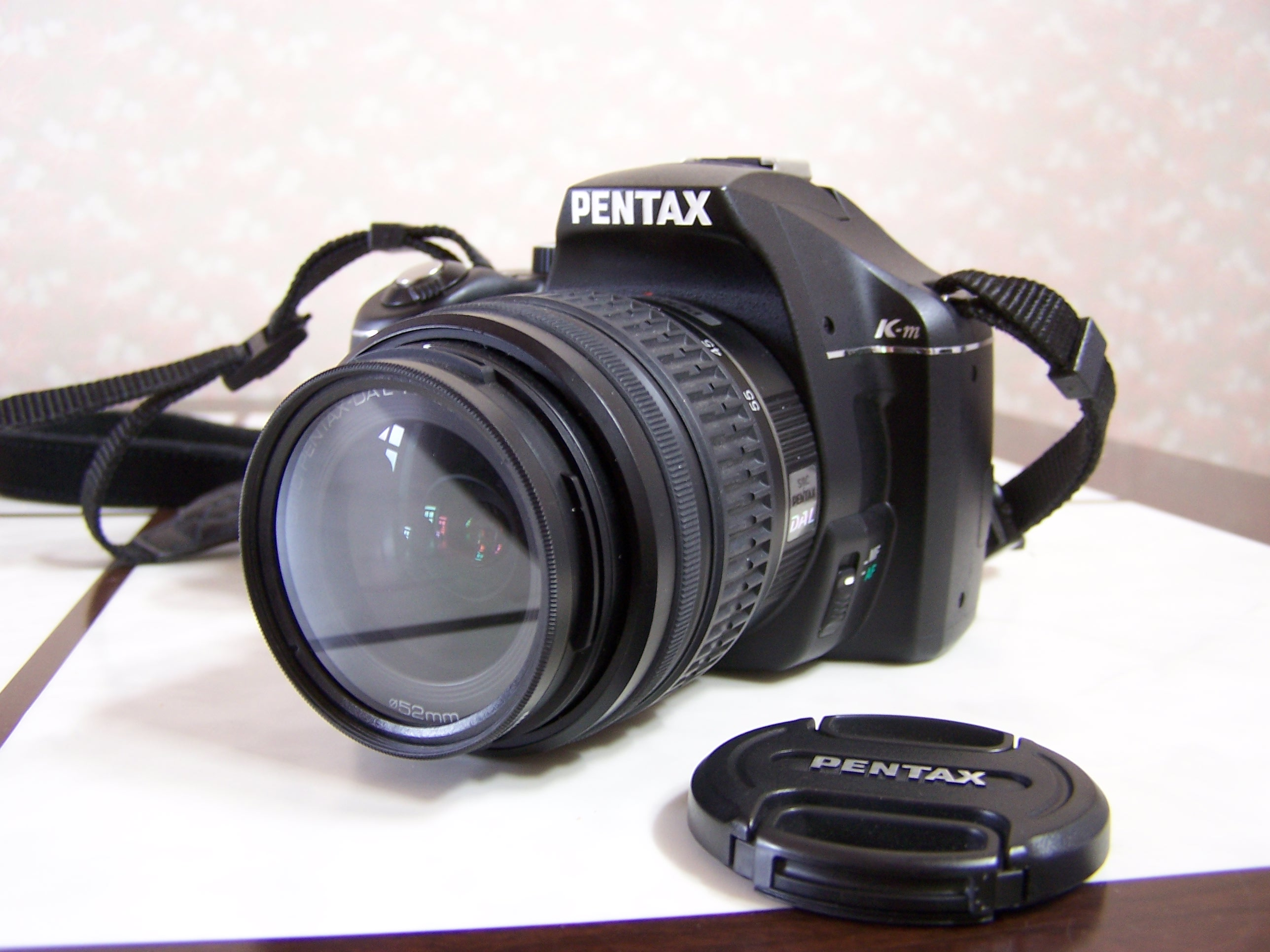 Photo of a Pentax K-M Camera bought in Japan